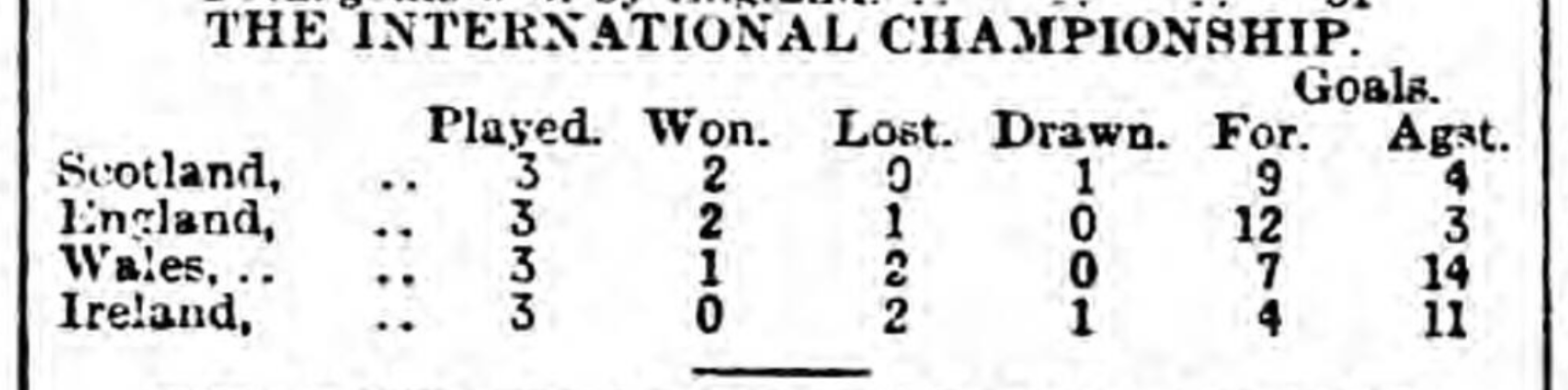 Early example of a printed league table for the British Home International Championship (1895-96)